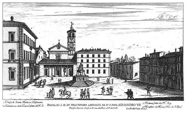 Giovanni Battista Falda: View of Santa Maria in Trastevere, Rome (end of 17th century)